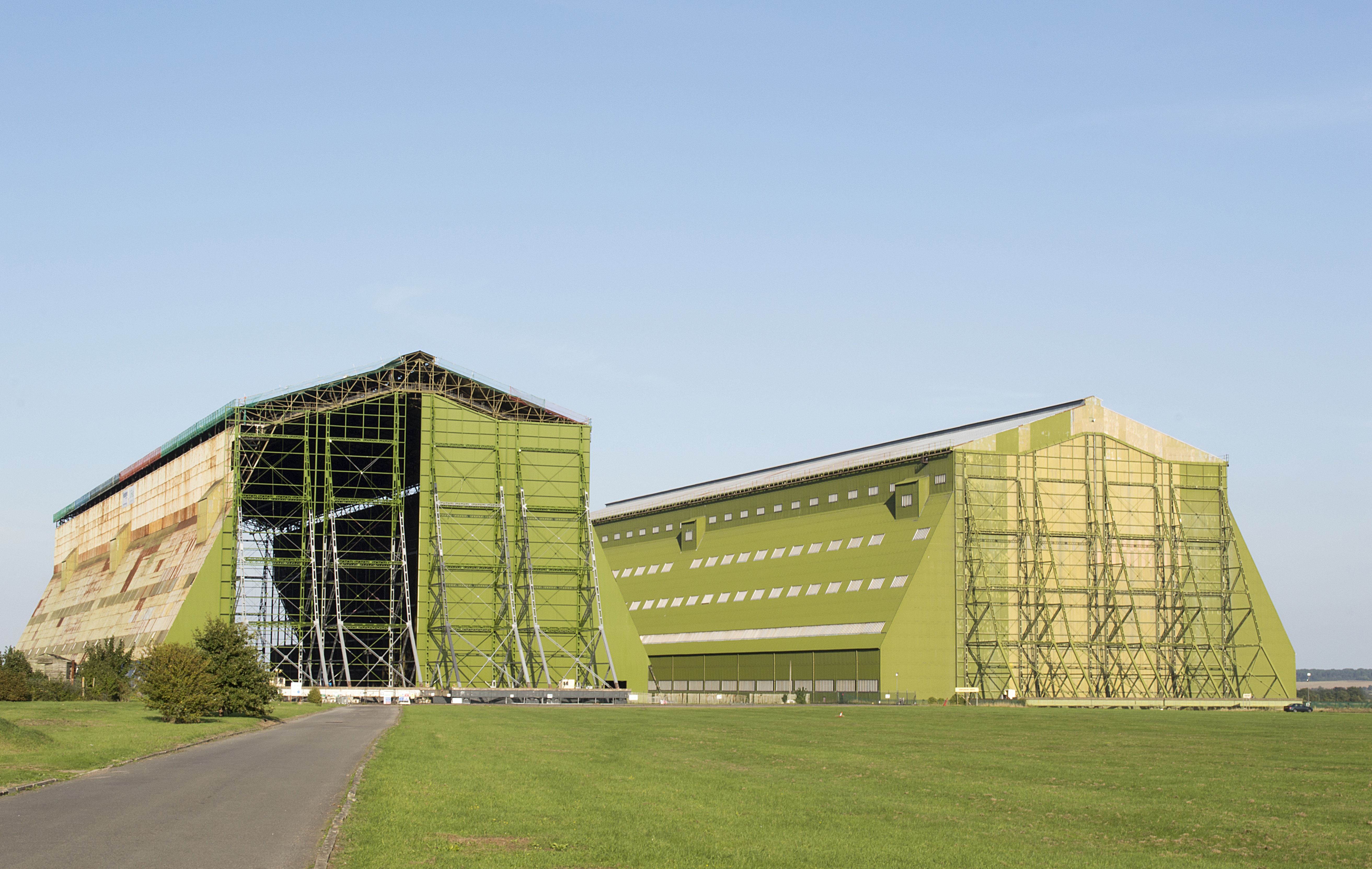 Both of the RAF Cardington hangars.